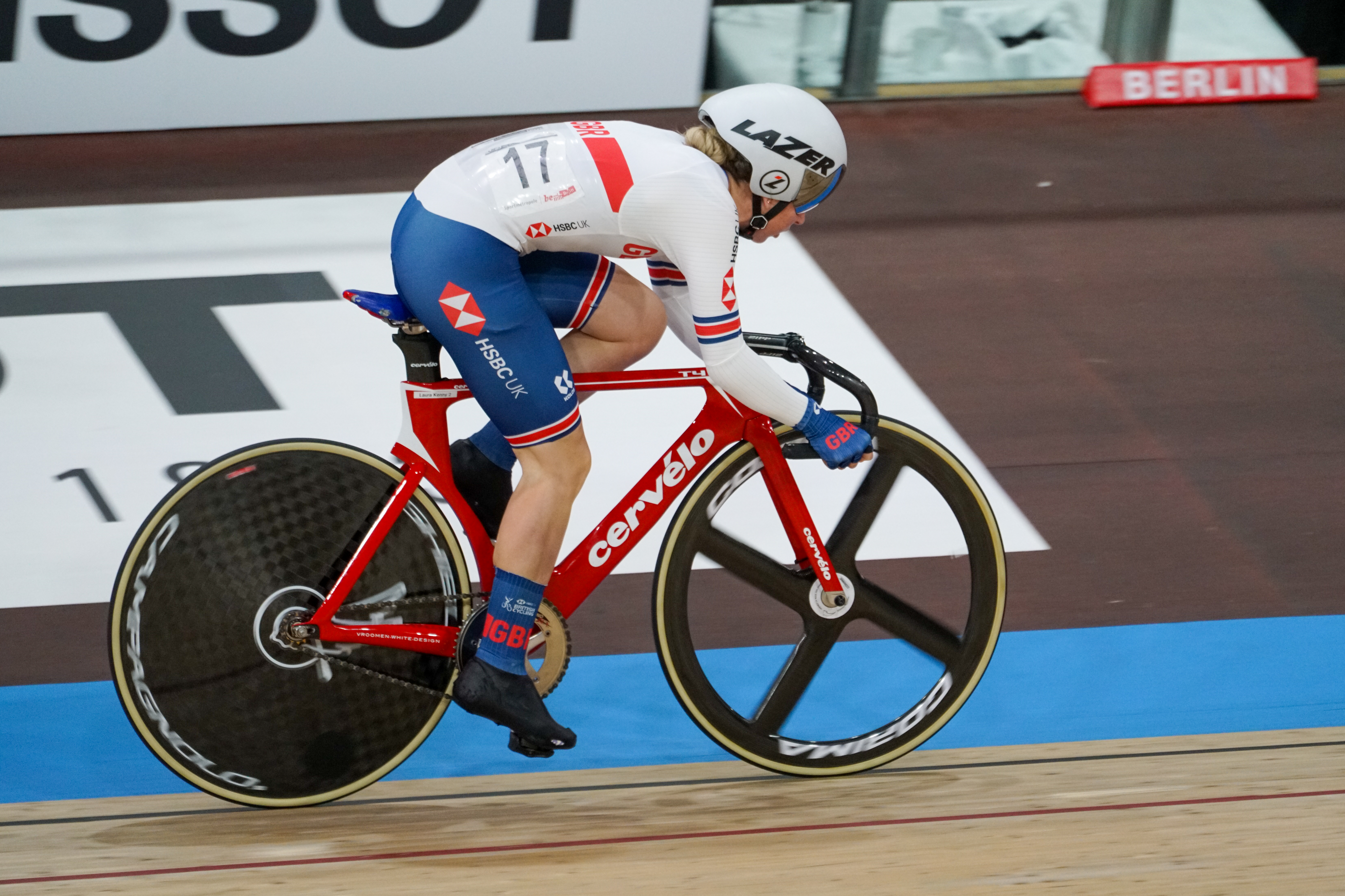 2020 UCI Track Cycling World Championships – Women's Omnium – Tempo Race